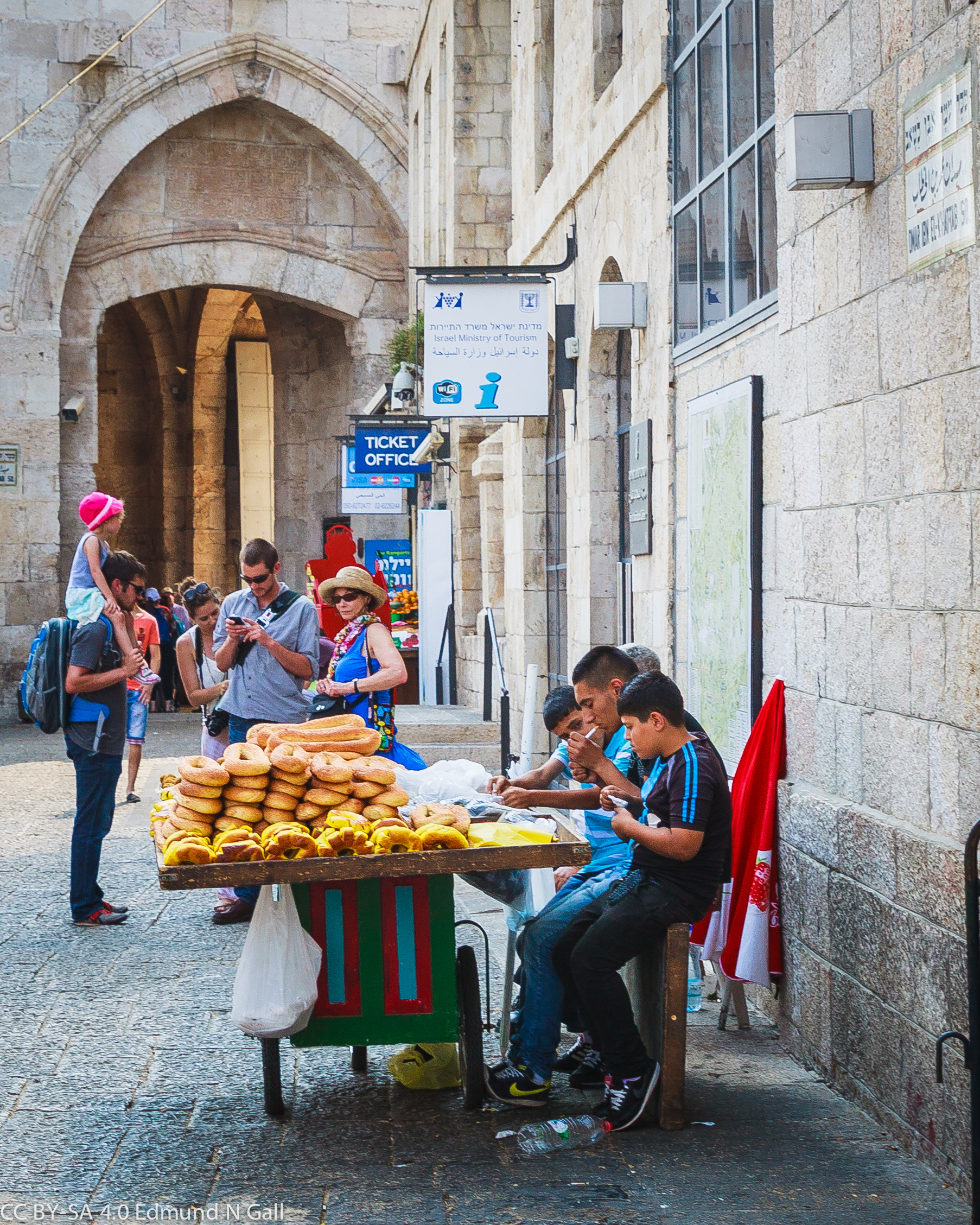 Bread vendor near Jaffa Gate (background)...